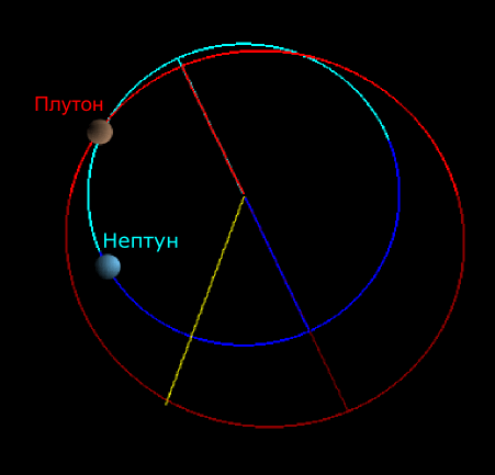 TheKuiperBelt_Orbits_Pluto_Polar planet names in Russian